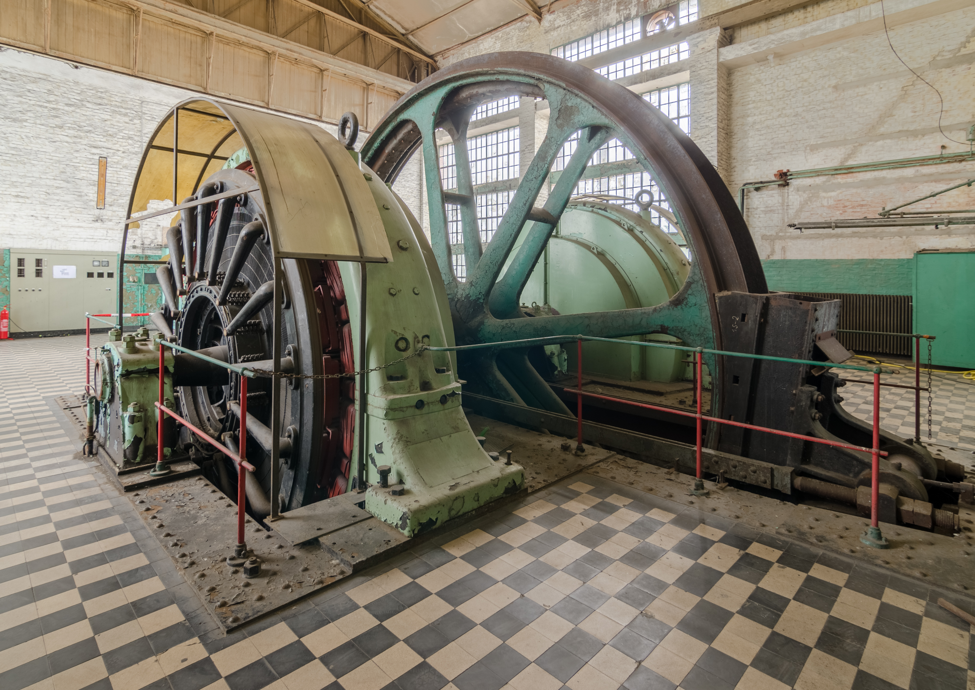 Moers (North Rhine-Westphalia, Germany) – district Repelen – Pattberg Coal Mine – shaft 1 – historic winding engine hall – electronic winding engine (1912)